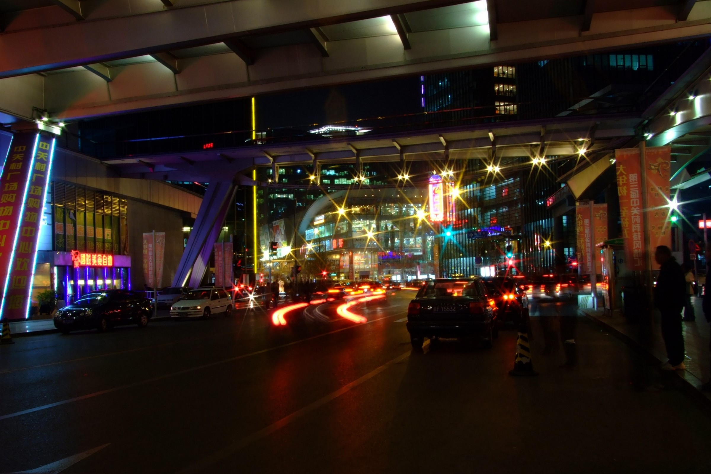 CBD in zhongguancun 中文（中国大陆）: 中关村商务区夜景